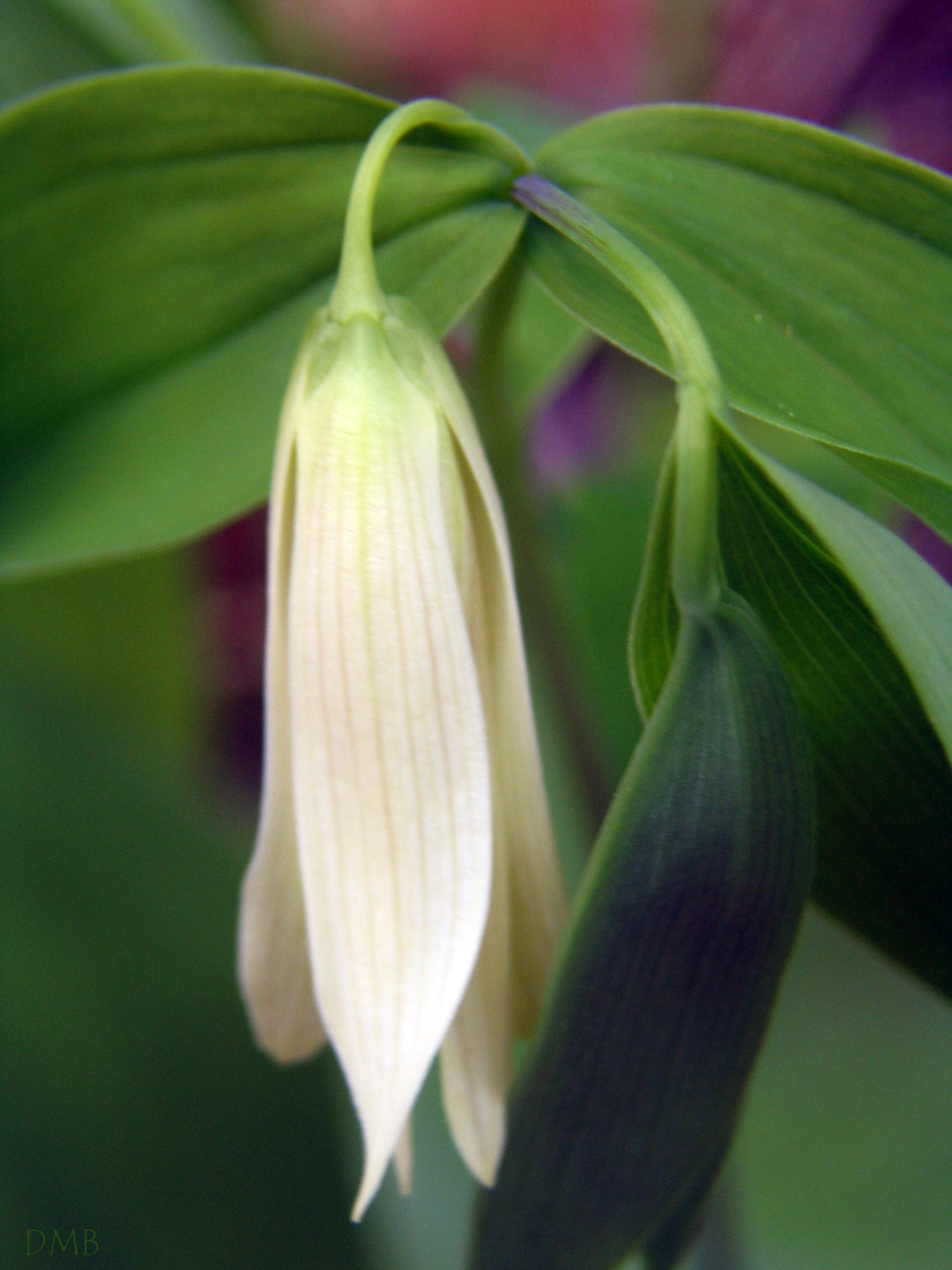 Sessile Bellwort "Wild Oats" Uvularia sessilifolia Lily Family